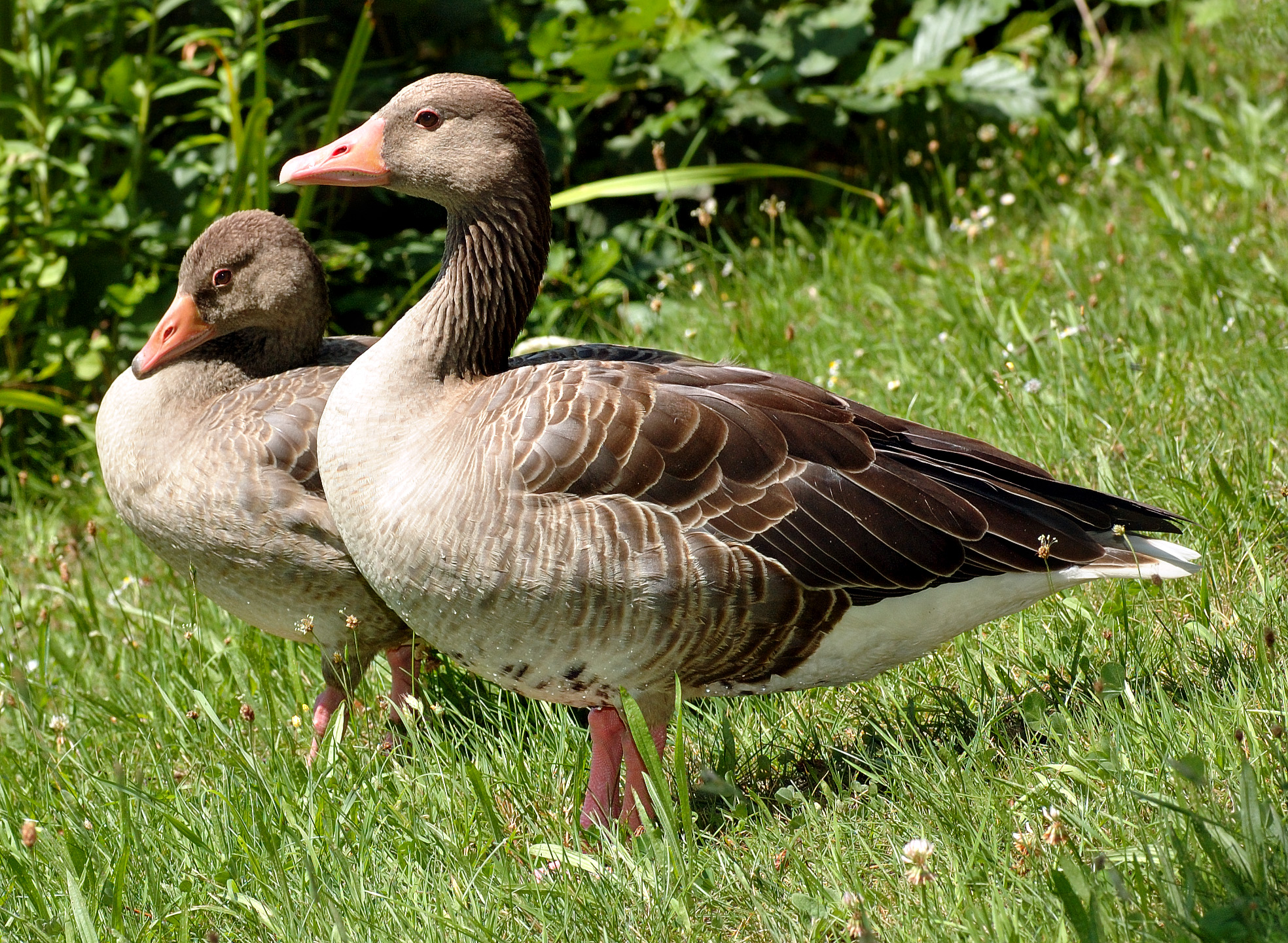 This image shows two Greylag Geese (Anser anser).